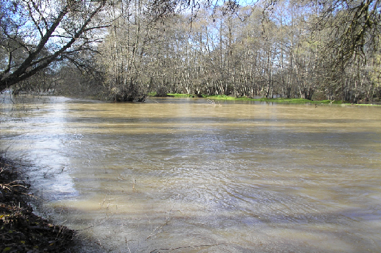 Alberche River, Spain.